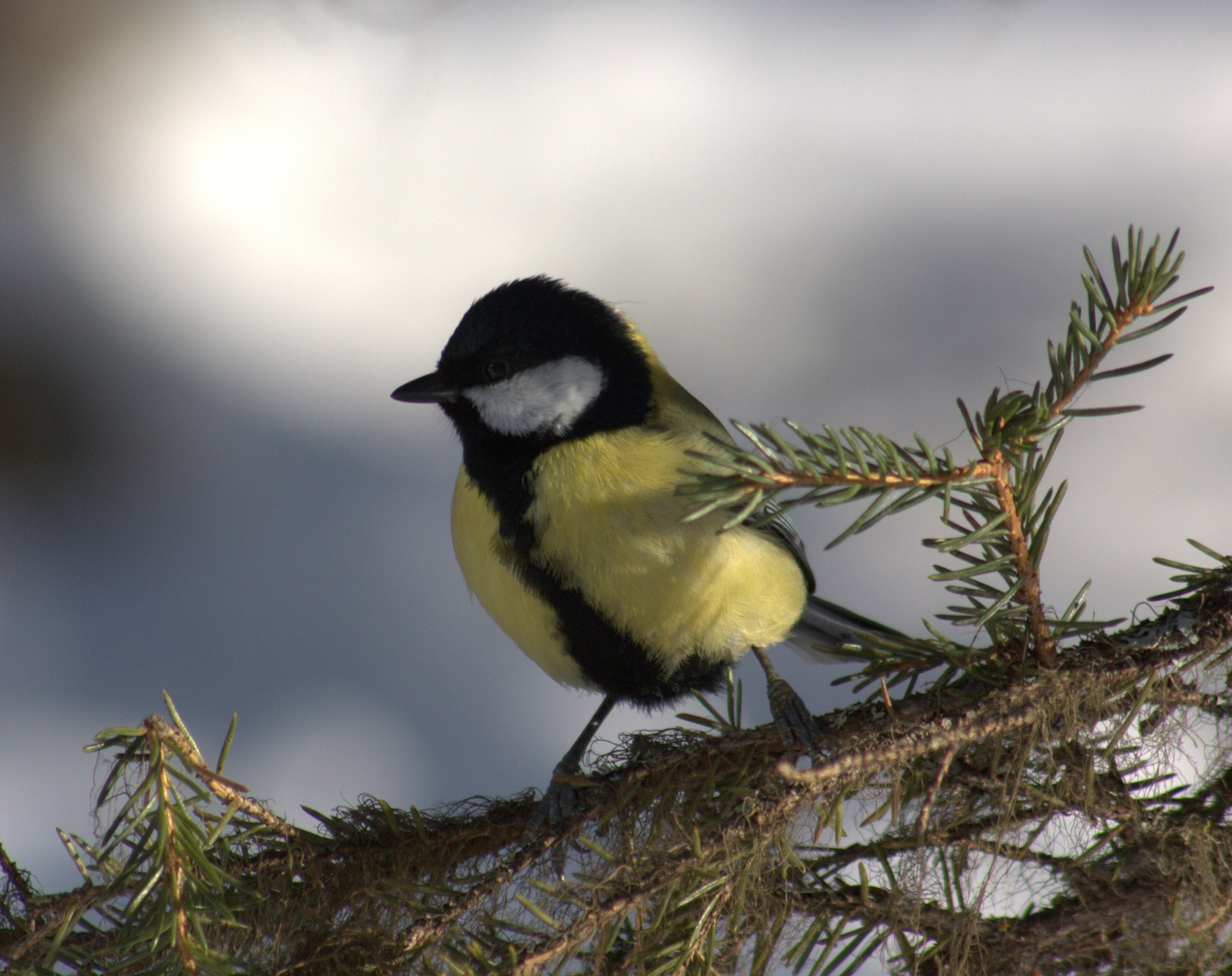 Great tit (Parus major) in Kittilä, Finland.